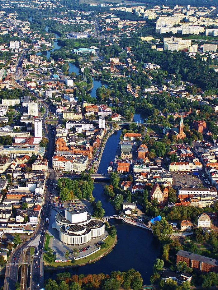 Bydgoszcz from the Air